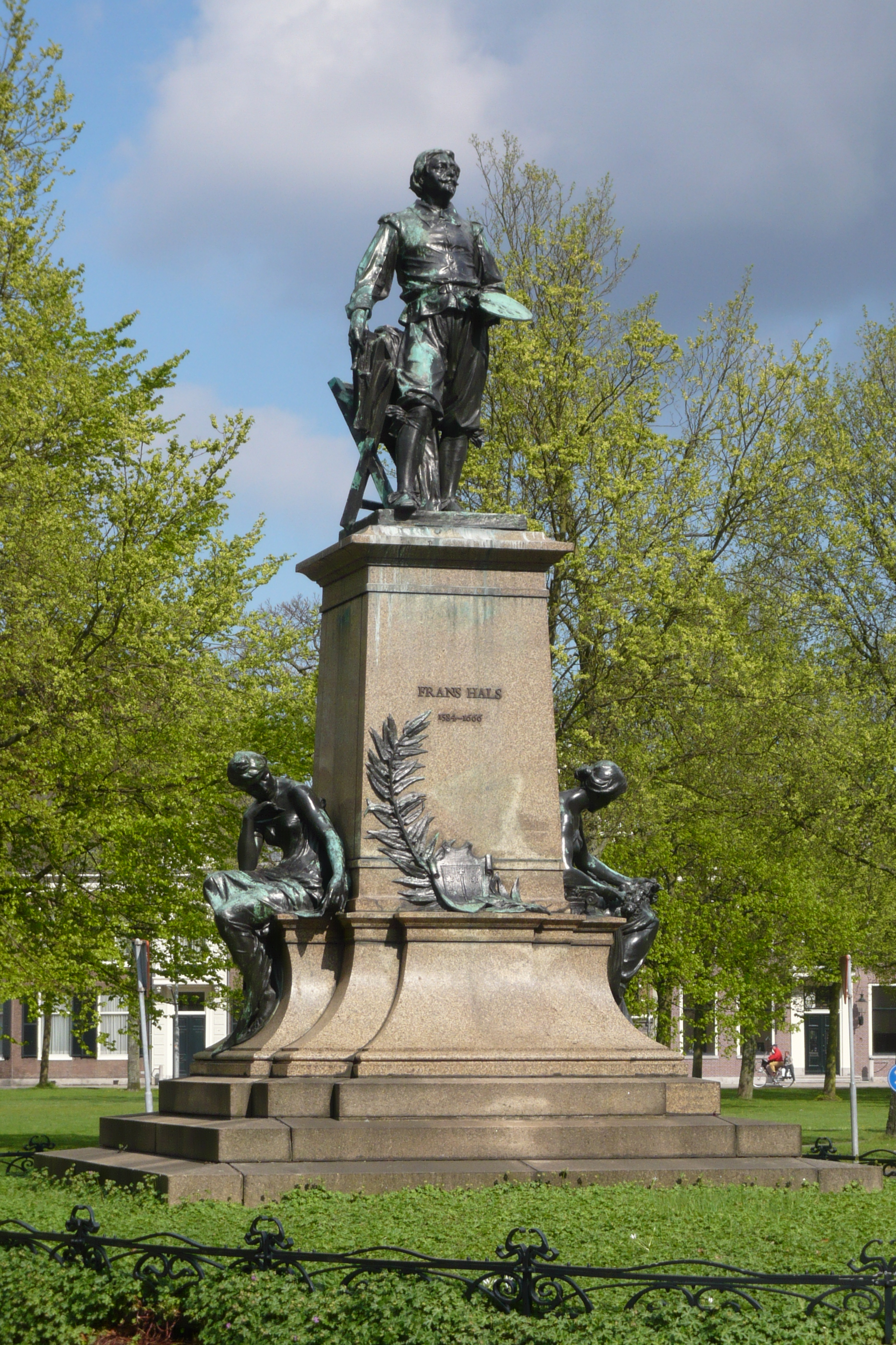 Bronze statue on granite pedastal of Frans Hals in Florapark, Haarlem, erected in 1900.